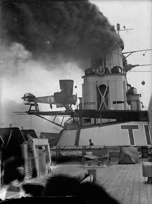 Sopwith 2F1 Camel ready for launch from the midship 'Q' turret of HMS Tiger; Imperial War Museum image SP 374